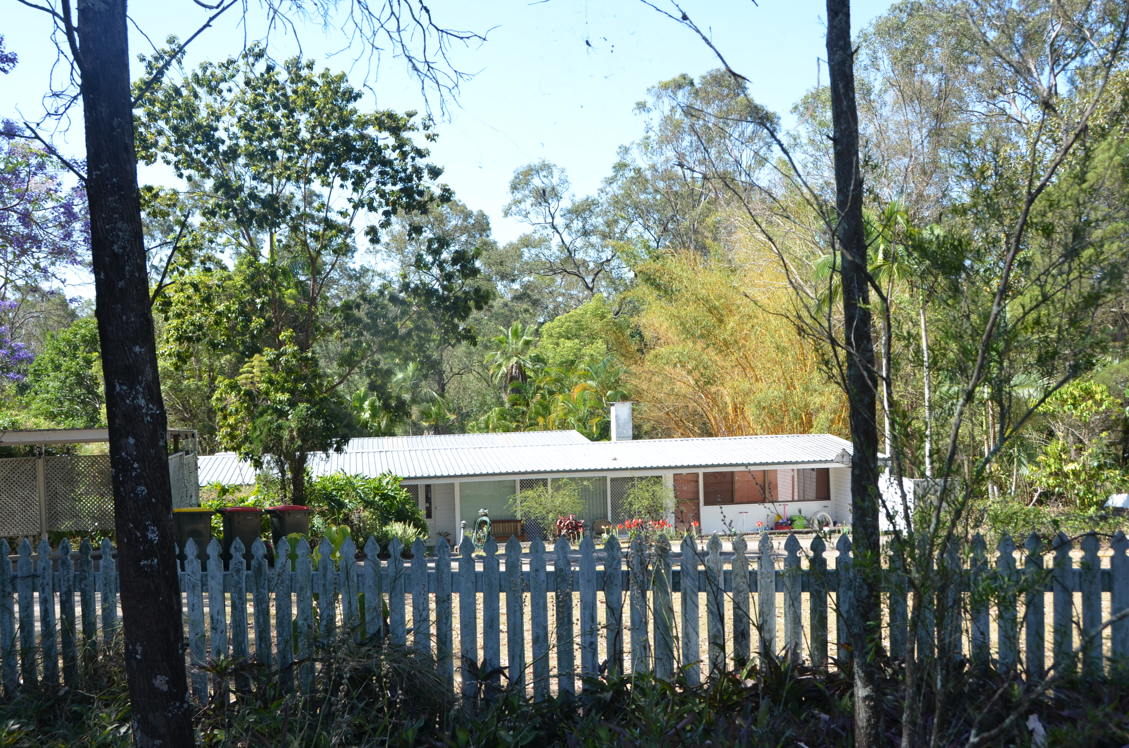 Leverington House - John Dalton 1962